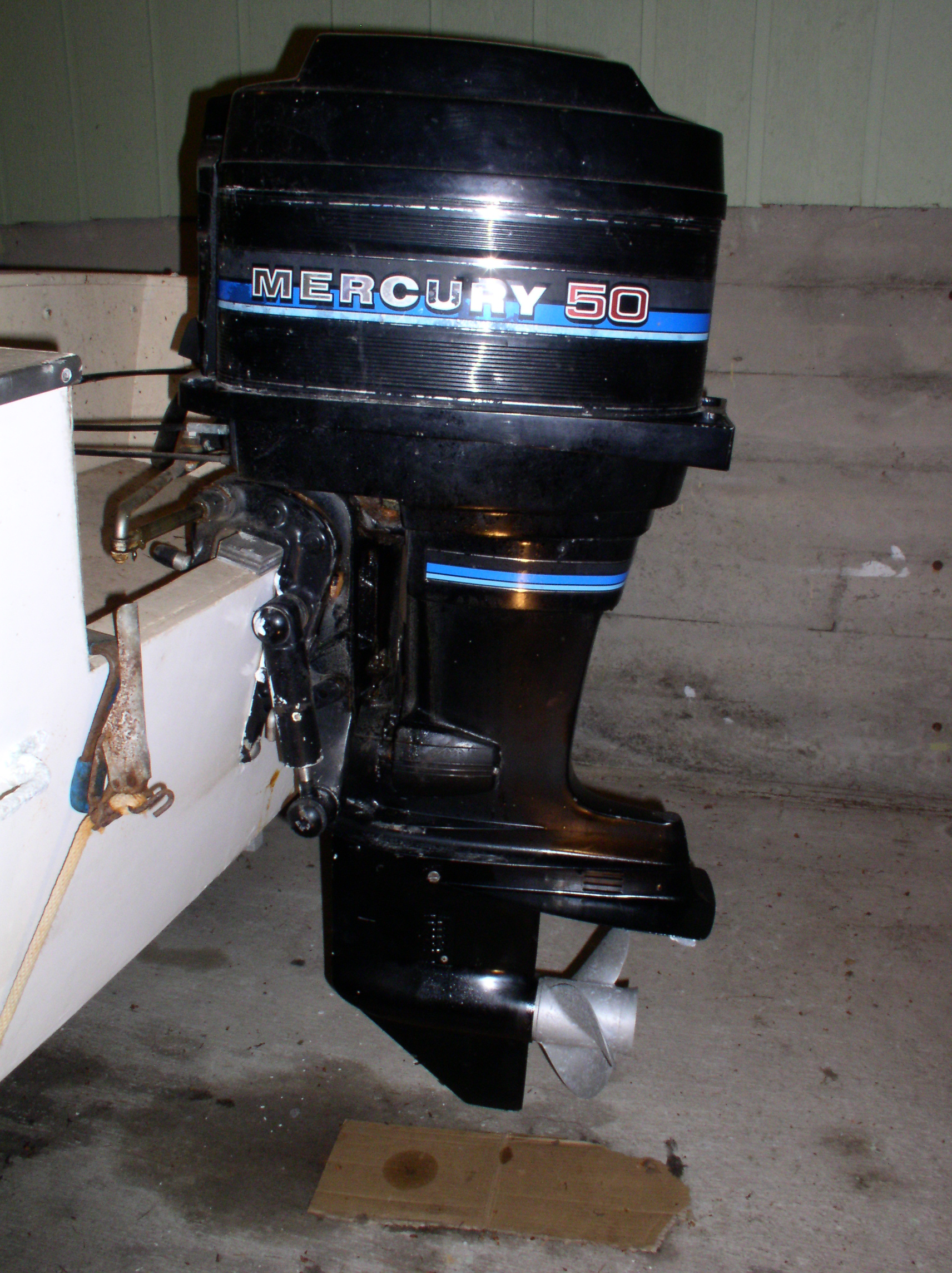 Mercury Marine 50hp outboard motor circa 1980s